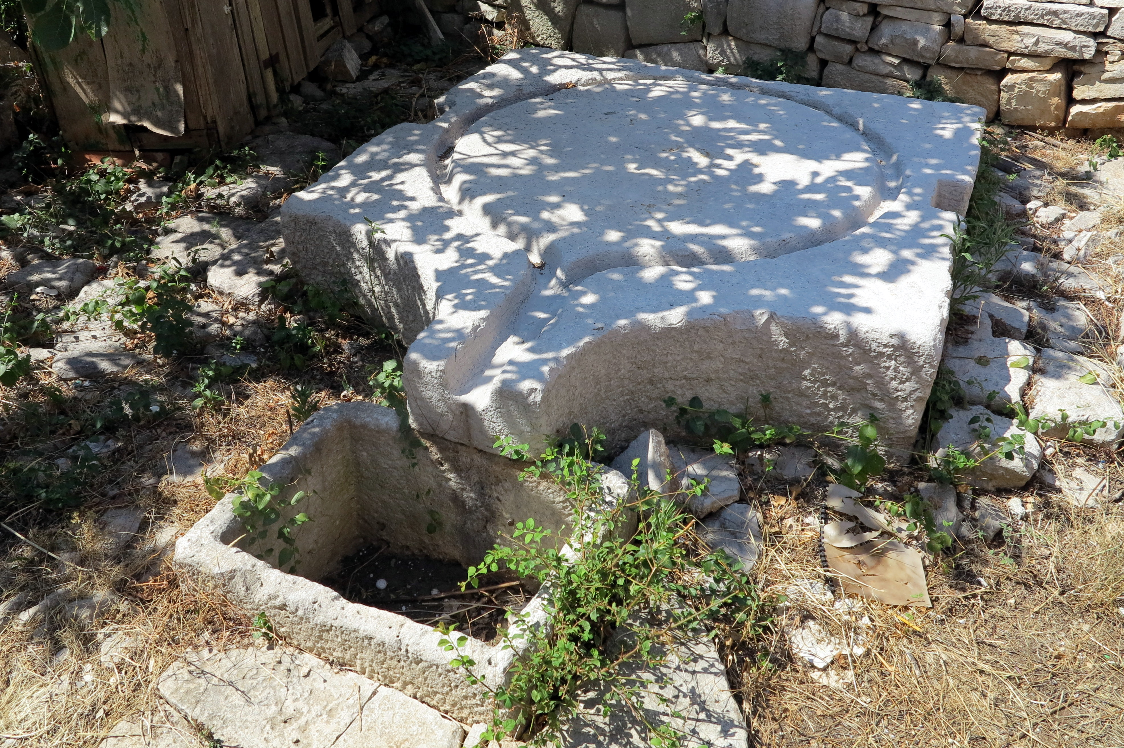 Foundation stone in a wine press made from limestone in Grohote on the island Šolta / Croatia / Adriatic Sea.